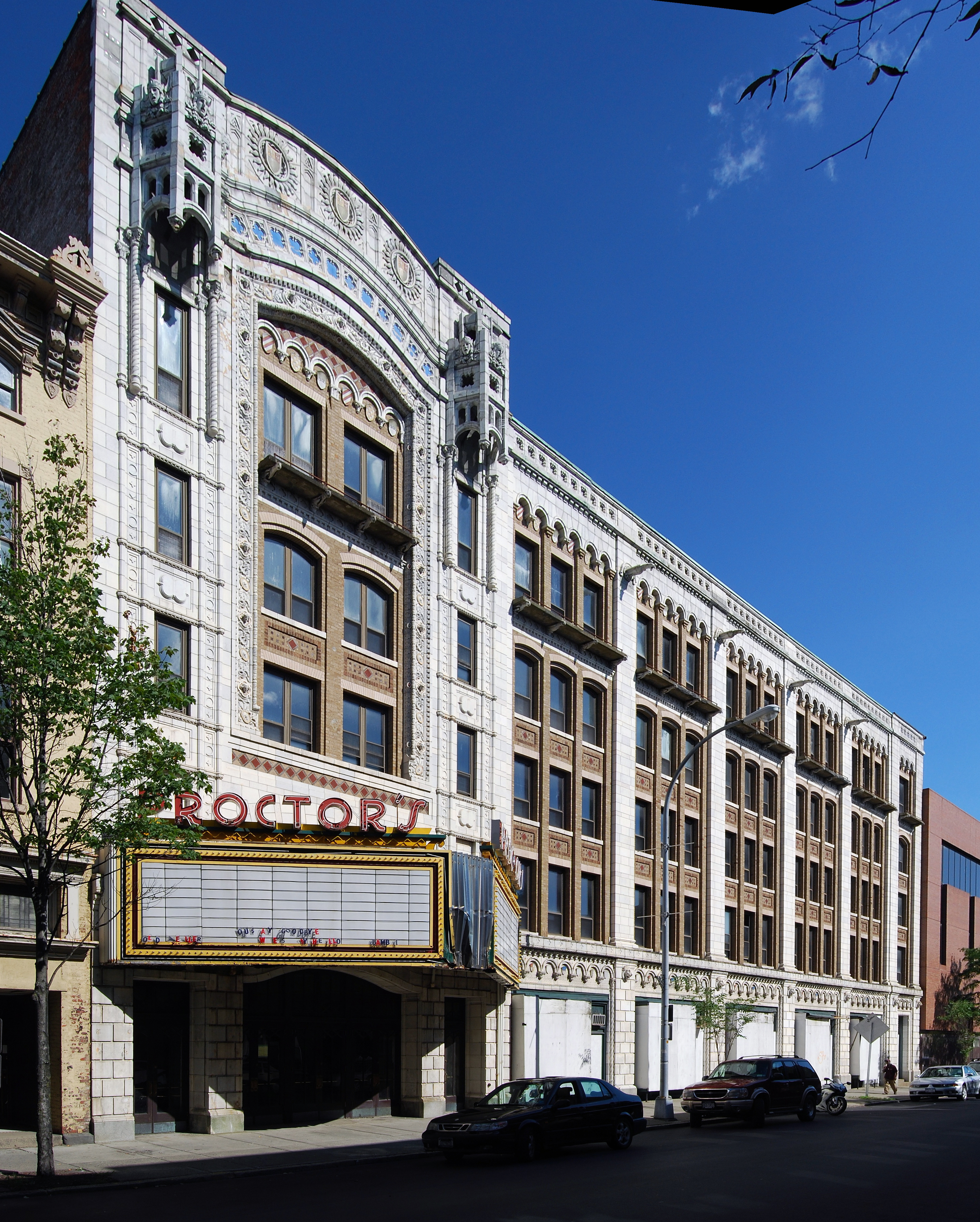 Proctor's Theater in Troy, New York, United States